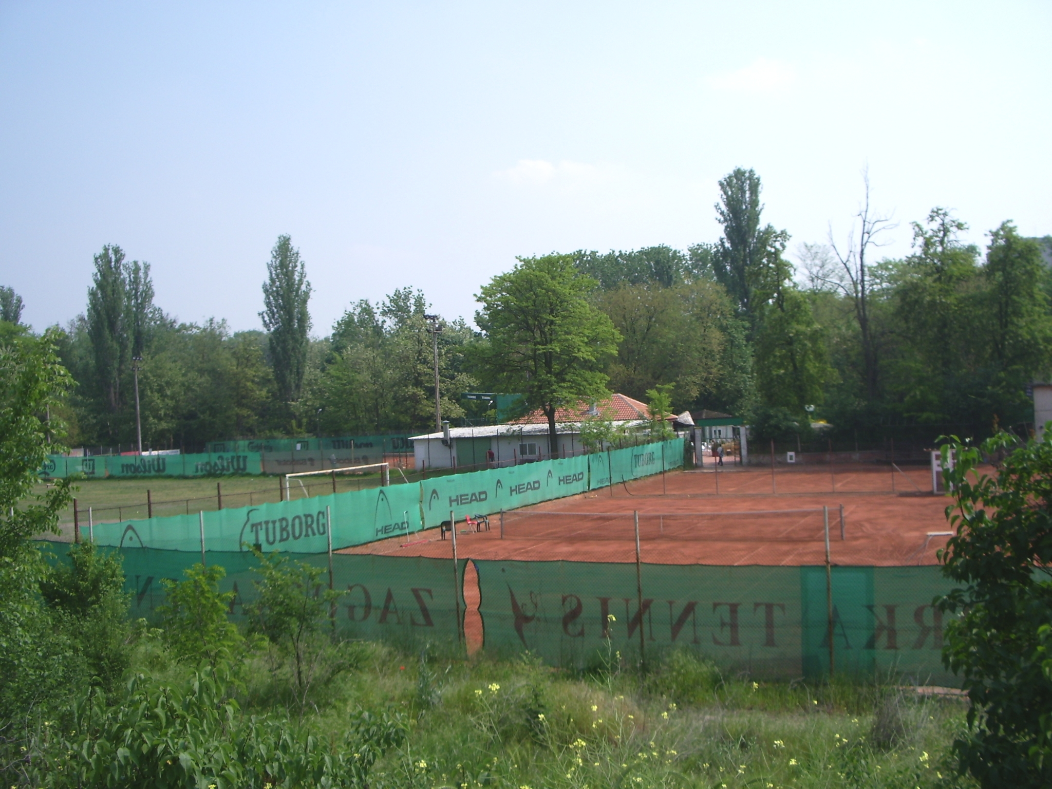 City park, Yambol, Bulgaria